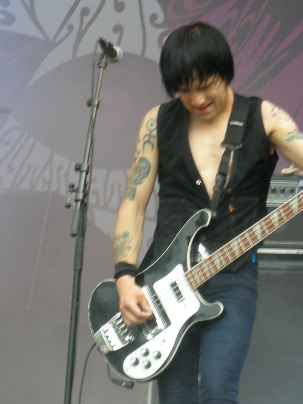 Inge Johansson, bass player of The (International) Noise Conspiracy, at Sonisphere Sweden 2009